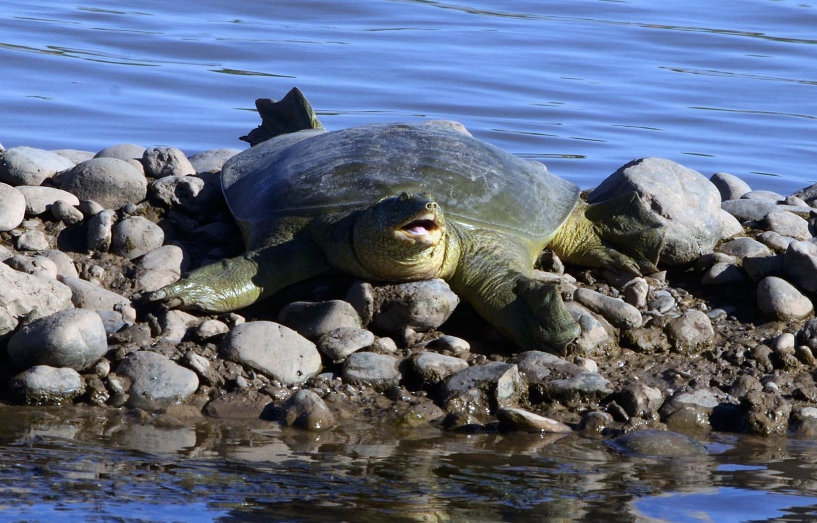 reqê feratê (Rafetus euphraticus)